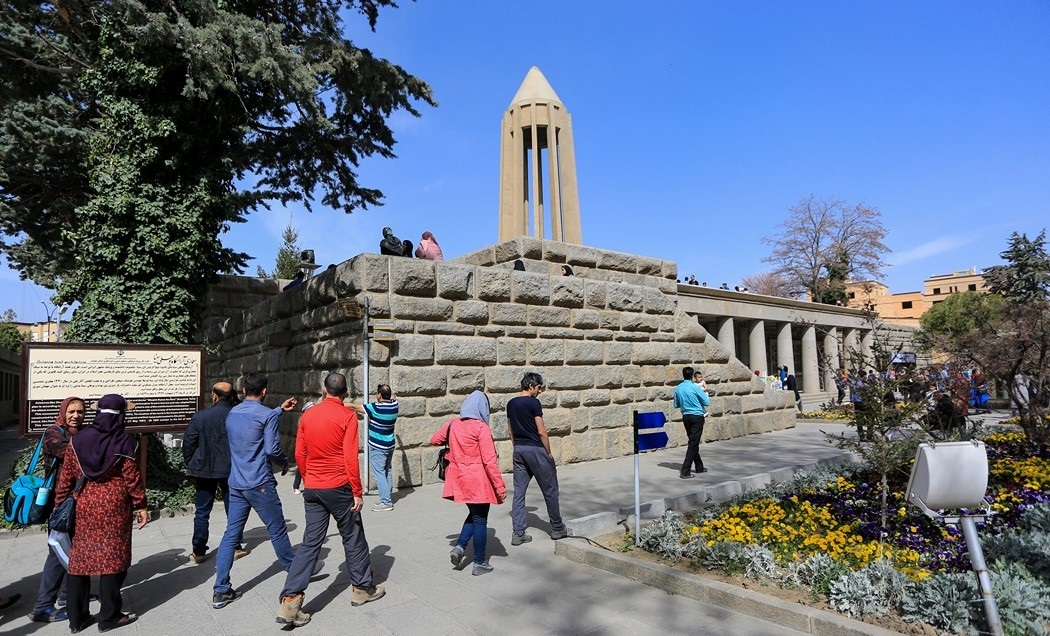 Avicenna Mausoleum, Nowruz 2018. see full gallery